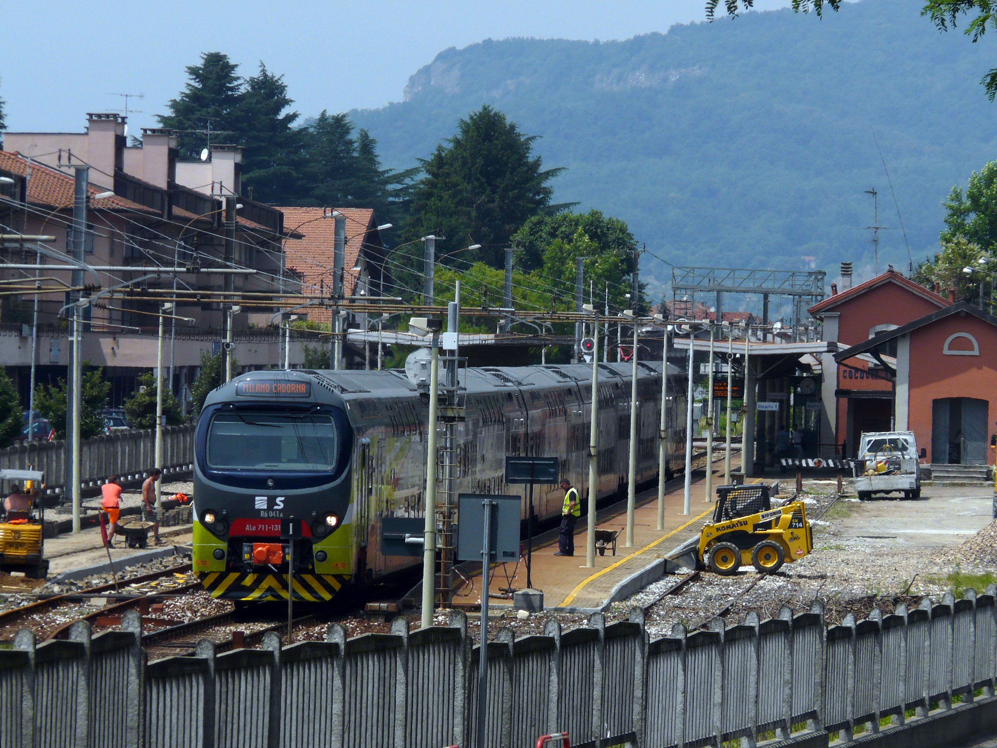 Cocquio-Trevisago railway station